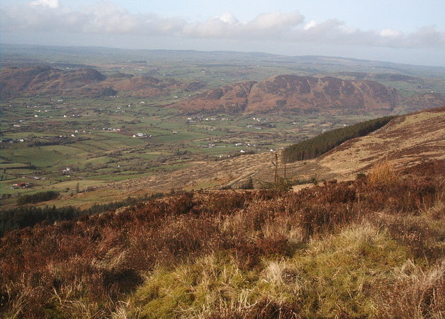 Slieve Gullion: Western Slope The photo shows the West Slope of Slieve Gullion which is in the grid square, the lowlands between Mullagbane and Lislea and in the background The Ring of Gullion (Slievenacapple)